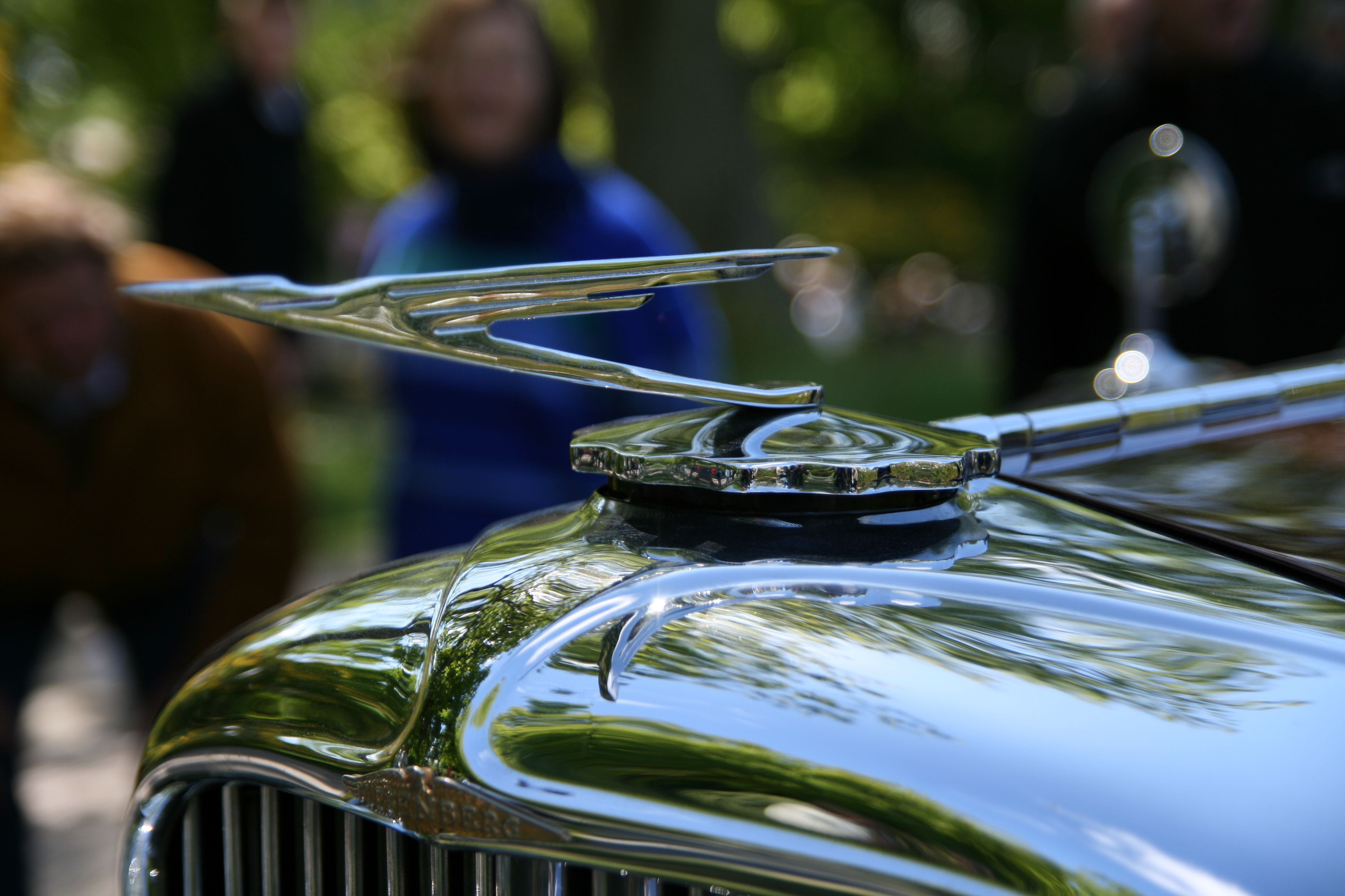 The hood ornament of a 1933 Duesenberg Model J Derham Tourster parked at the Sofiero Classic car show at Sofiero castle in Helsingborg, Sweden.